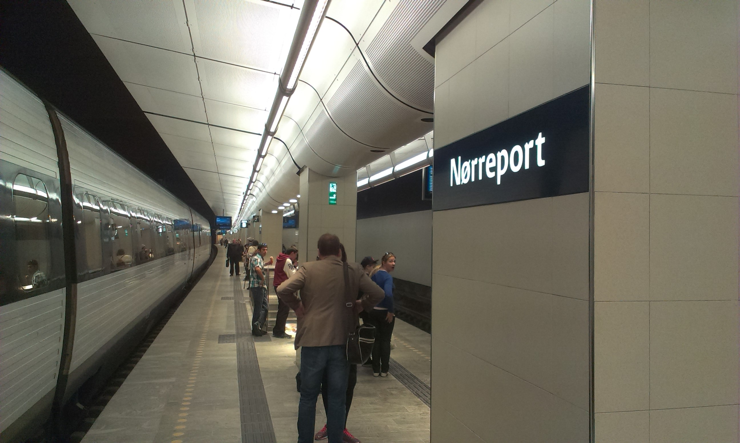 Nørreport st. Fjern Perronerne efter renovationen